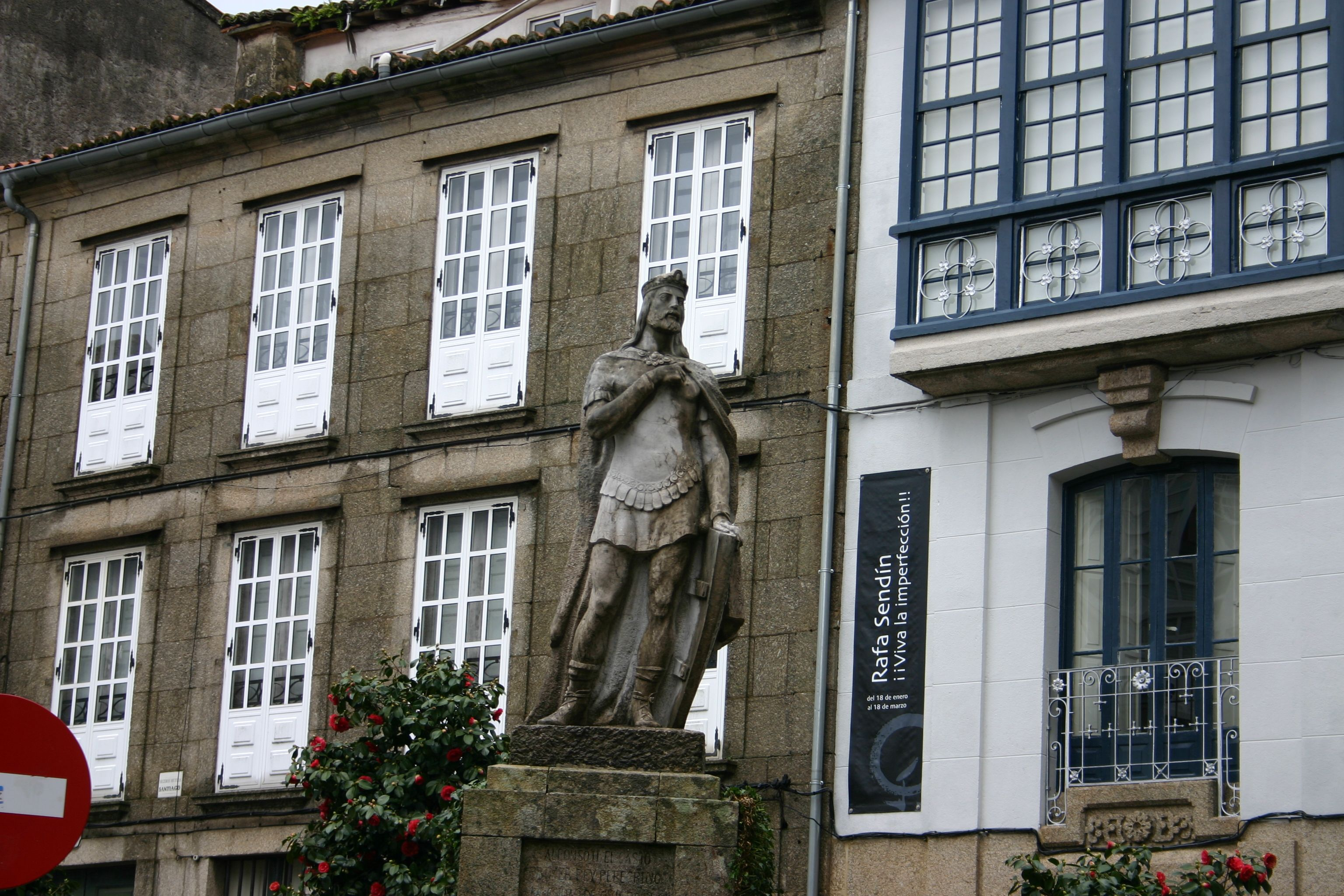 Alfonso II (759-842, king 791), bears the name of "the Chaste." Santiago de Compostela, Galicia (Spain) Author: User:Yearofthedragon